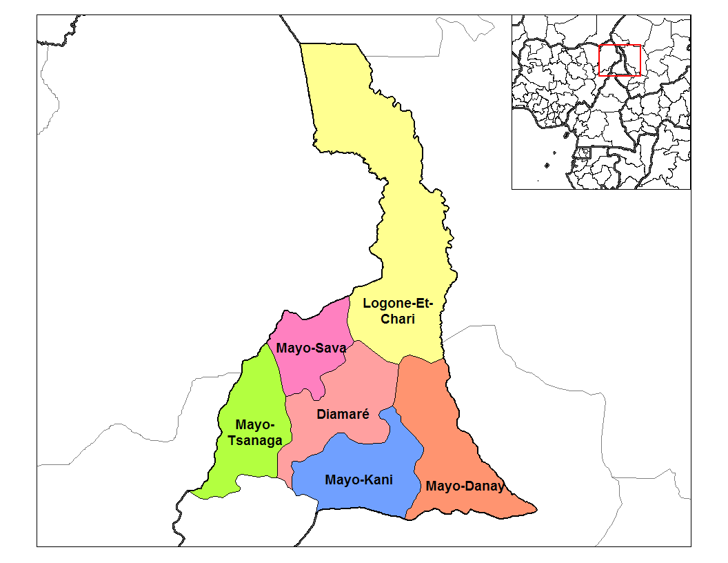 Map of the divisions of Far North province in Cameroon. Created by Rarelibra 19:54, 1 September 2006 (UTC) for public domain use, using MapInfo Professional v8.5 and various mapping resources.